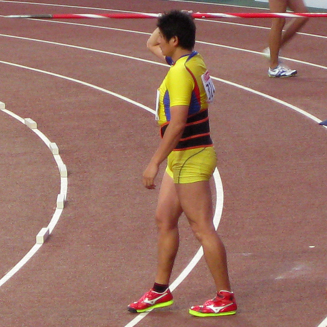 M javelin throw final at the 96th Japan Championships in Athletics - This photo was taken on 9 June, 2012 at Nagai Stadium, Osaka. Yukifumi Murakami, world javelin bronze medalist.